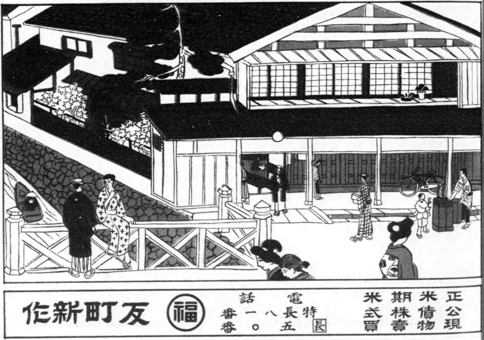 Sorimachi Shinsaku Shōten (Okasan Niigata Securities Co.,Ltd., currently), Nagaoka, Niigata Prefecture, Japan in Taishō era